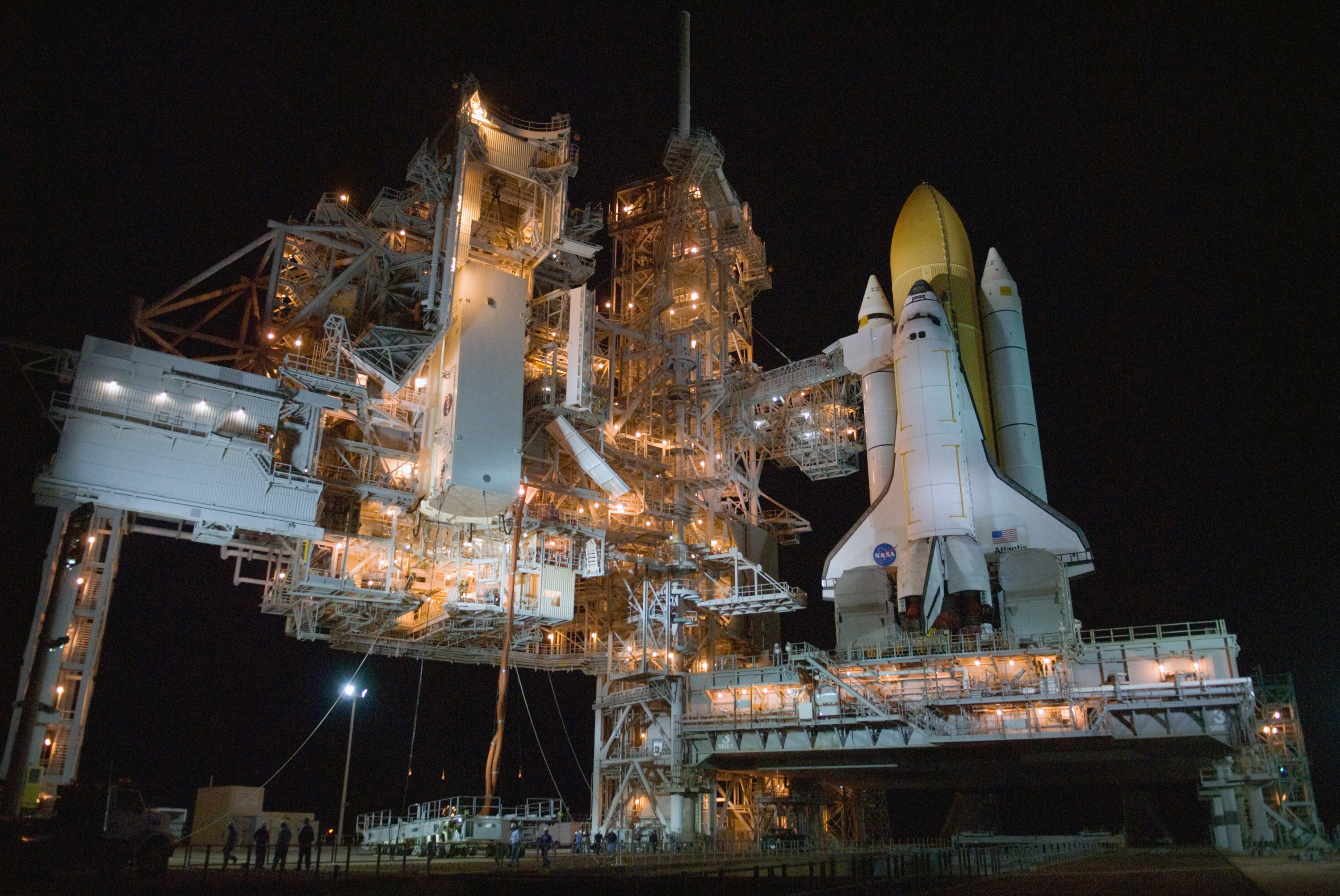 CAPE CANAVERAL, Fla. - At NASA's Kennedy Space Center in Florida, the canister containing the payload for space shuttle Atlantis' STS-129 mission to the International Space Station - Express Logistics Carriers 1 and 2 - is secured in the Payload Changeout Room at Launch Pad 39A. Next, the payload will be installed in Atlantis' payload bay. The STS-129 crew will deliver two spare gyroscopes, two nitrogen tank assemblies, two pump modules, an ammonia tank assembly and a spare latching end effector for the station's robotic arm. Launch is set for Nov. 16. For information on the STS-129 mission objectives and crew, visit